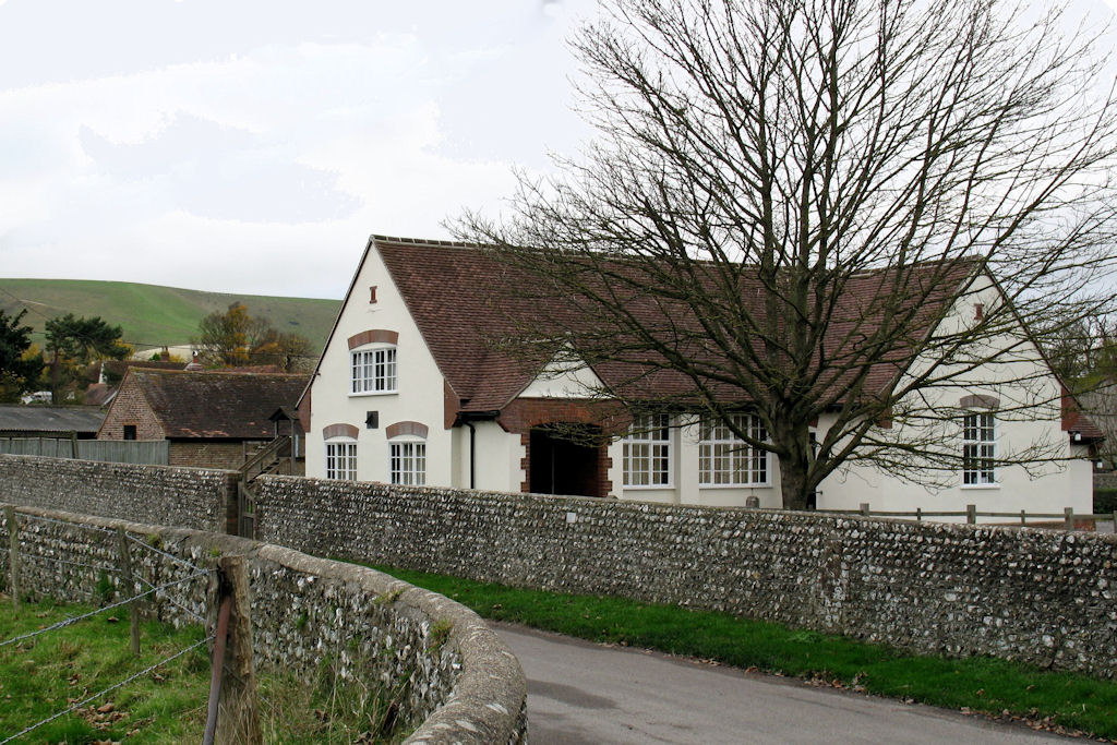 Iford Village Hall, Iford, East Sussex. The sundial marks the line of the Greenwich Meridian